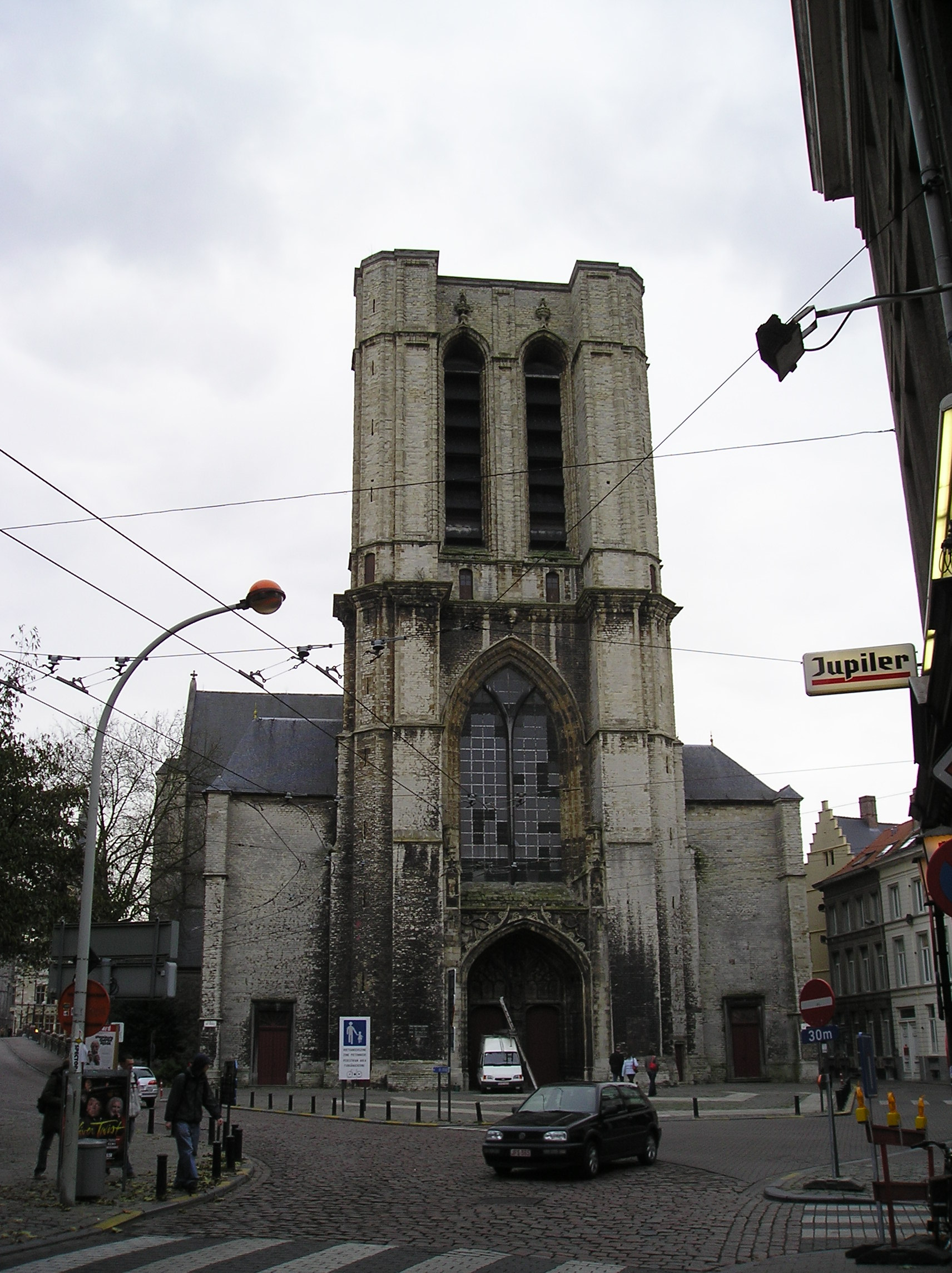 This church was mainly build between 1440 and 1480, but finisched only in 17 century. However, the tower was never finished.